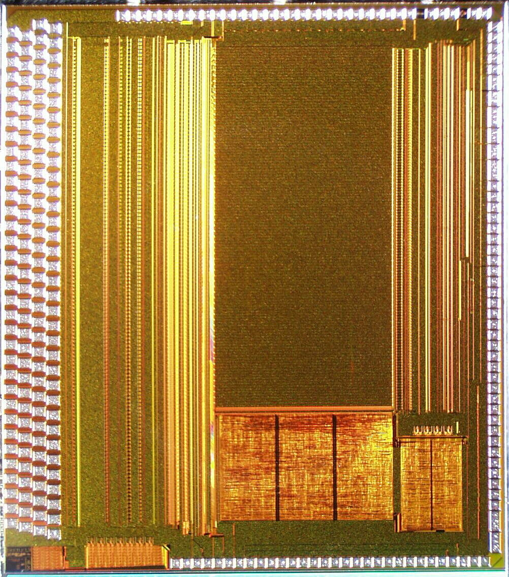 Beetle ASIC in a 250nm CMOS technology